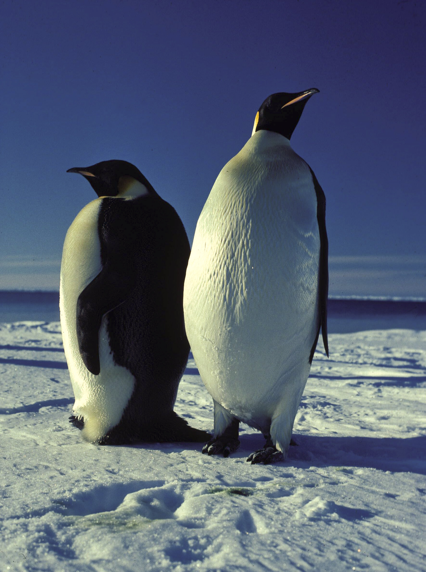 Emperor Penguin, Atka Bay, Weddell Sea, Antarctica